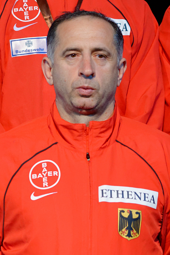 Germany national coach Vilmoș Szabo at the award ceremony of the men's team sabre event at the European Fencing Championships at Rhénus Sport in Strasbourg on 14 June 2014.